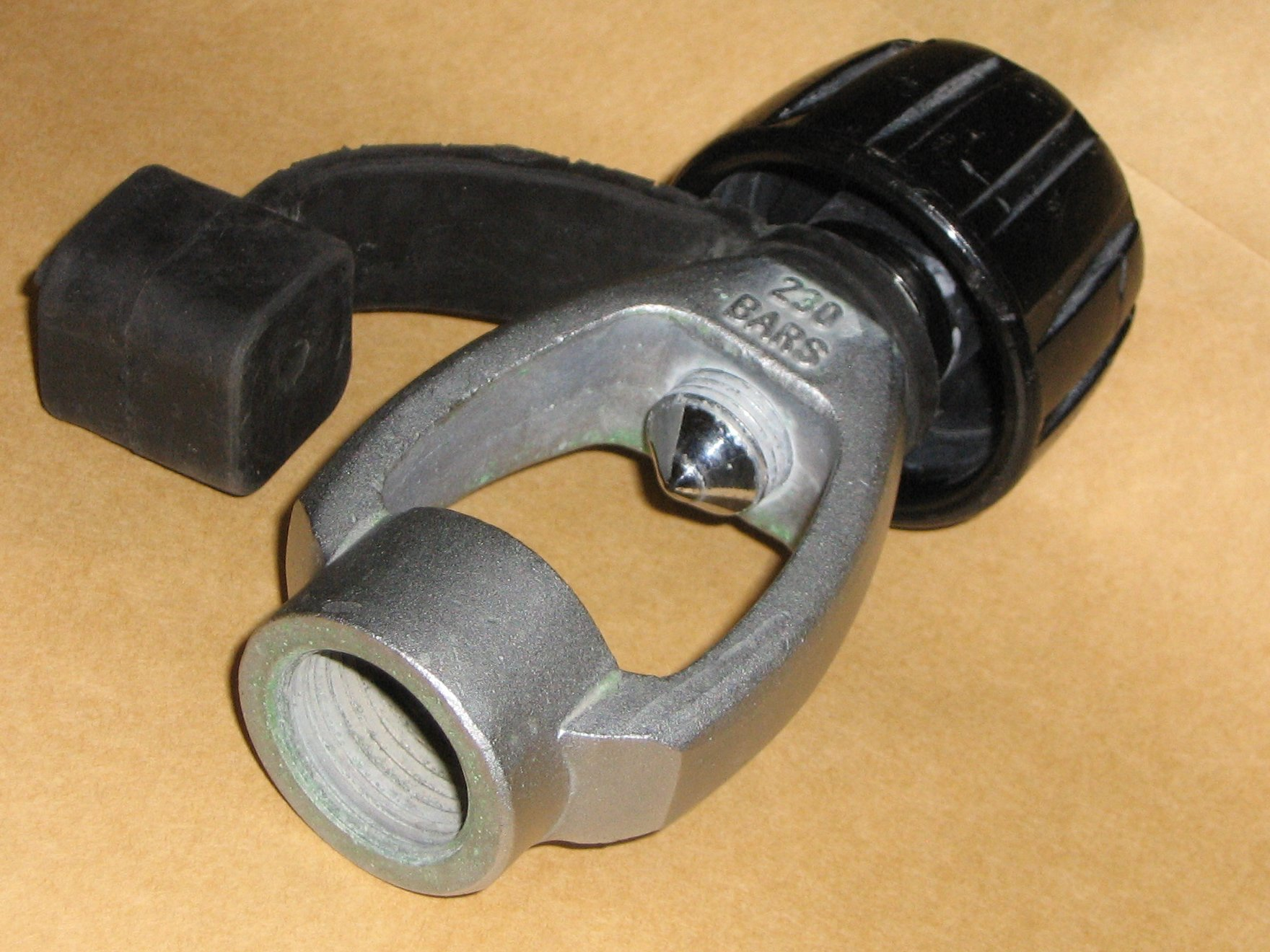 An adaptor which allows a DIN-standard scuba regulator to connect onto a diving cylinder that has a yoke (A-clamp) pillar valve